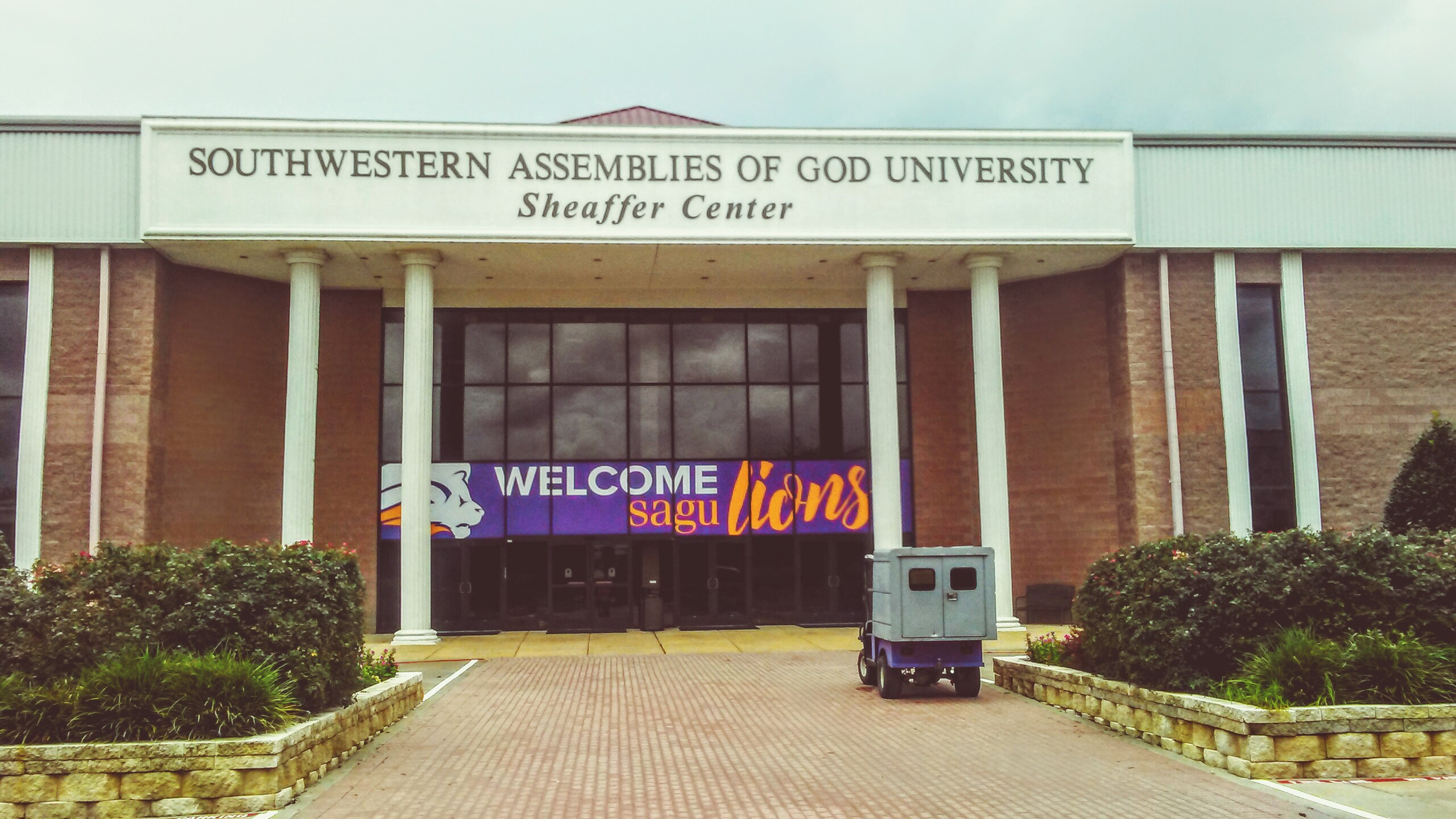 Shaffer Center at SAGU